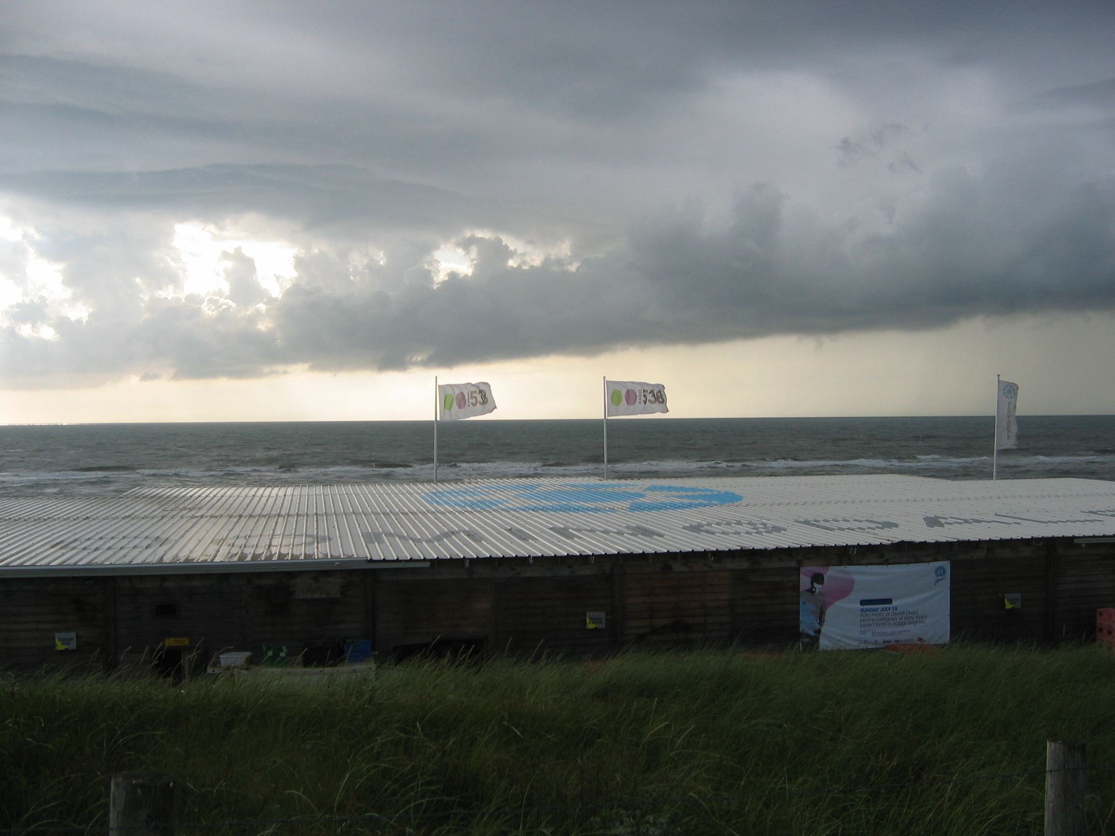 Beachclub Bloomingdale